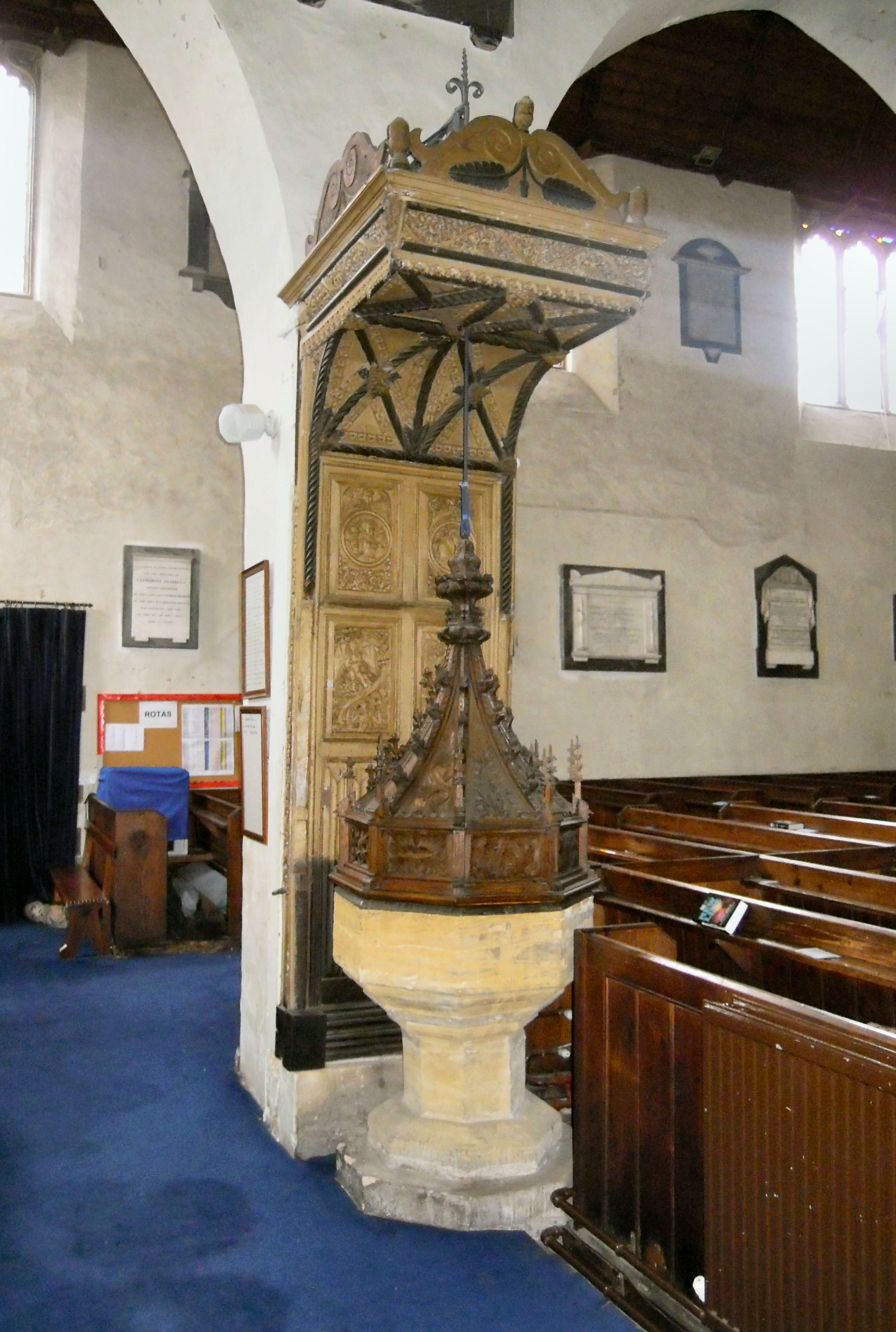 The 16th-century baptismal font in the Church of St Mary the Virgin in Pilton in Barnstaple, Devon